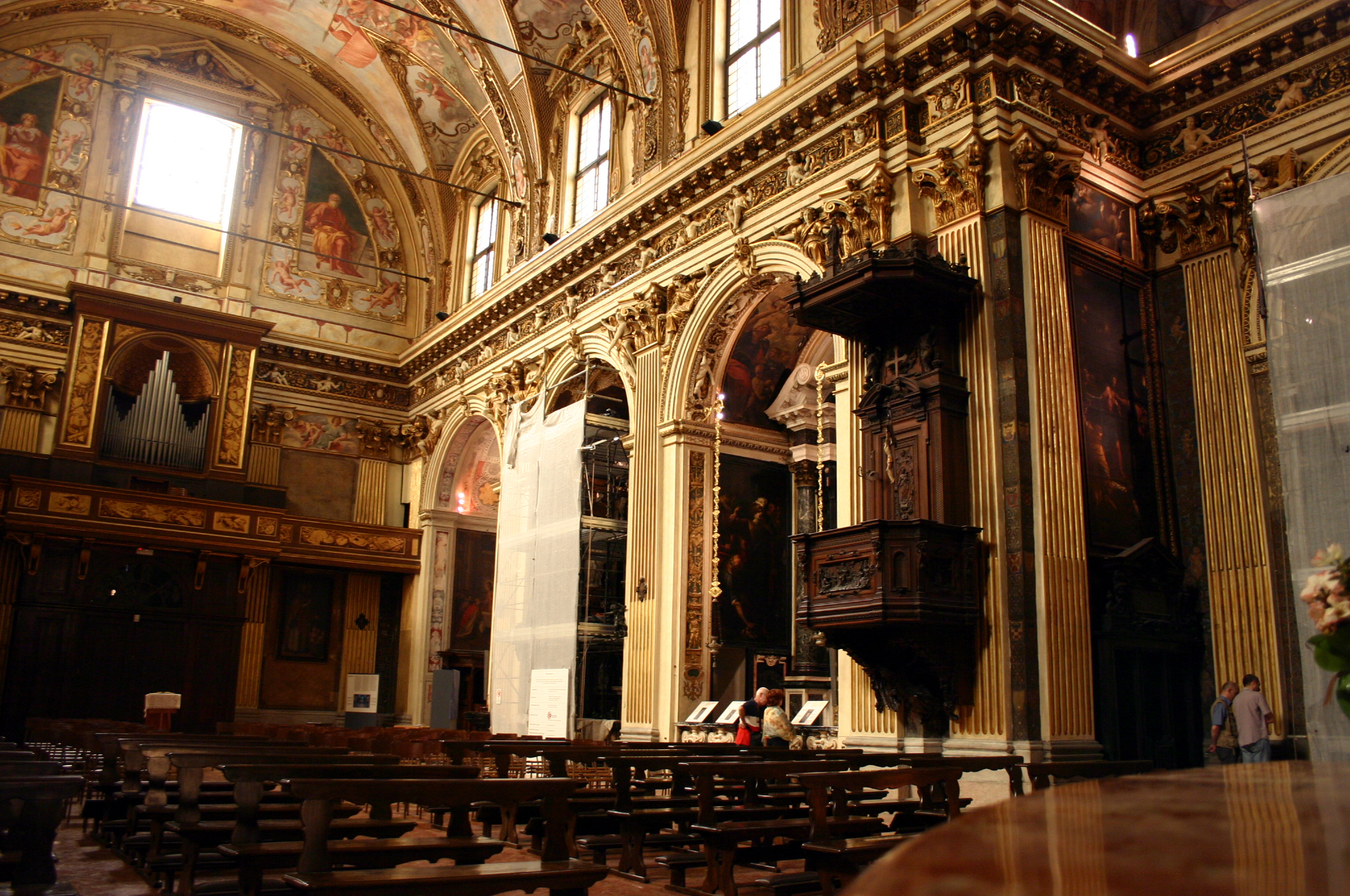 Nave of Sant'Antonio Abate church in Milan, Italy. Picture by Giovanni Dall'Orto, May 20 2007.